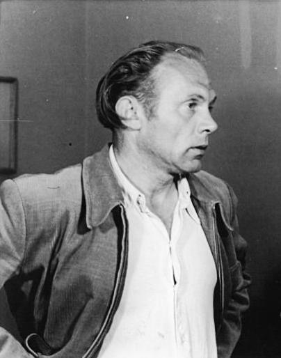 Arno Mohr in 1950 This is a derivative image.